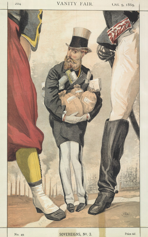 Sovereigns No.3: Caricature of Leopold II of the Belgians. Caption reads: "Un roi constitutionnel."